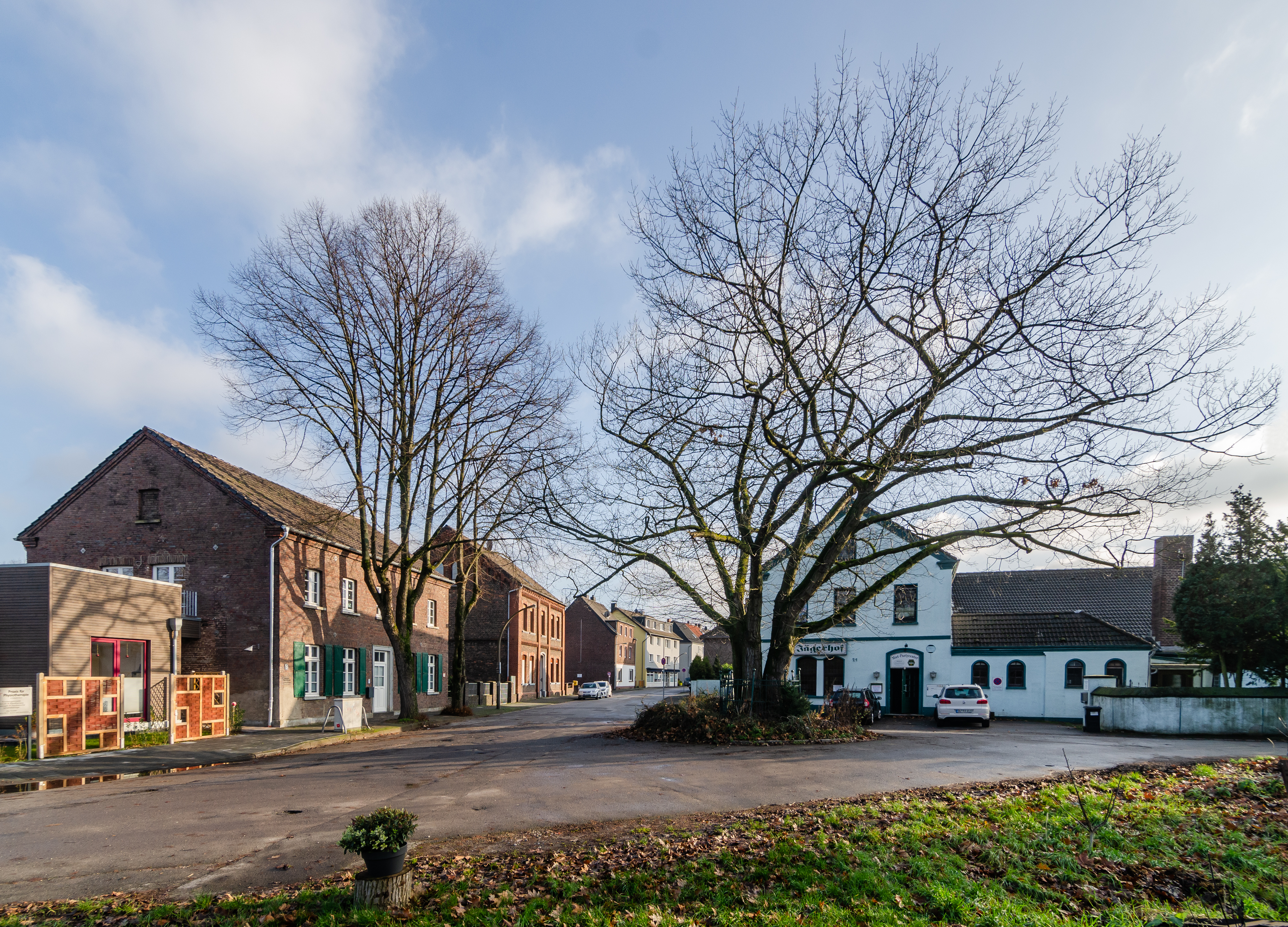 Duisburg (North Rhine-Westphalia, Germany) – borough Rheinhausen, district Bergheim, village Oestrum – listed village square with the oak of peace and historic farmhouses